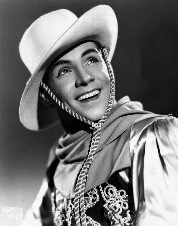 Photo of musician and composer Sergio De Karlo.